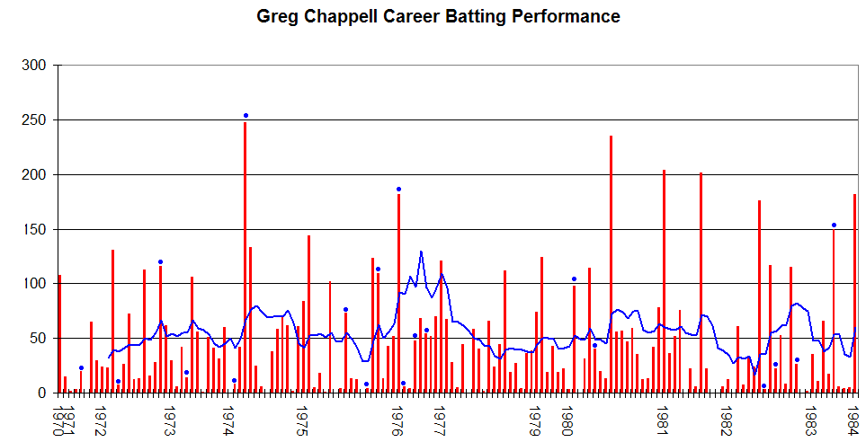 This graph details the Test Match performance of Greg Chappell. It was created by Raven4x4x. The red bars indicate the player's test match innings, while the blue line shows the average of the ten most recent innings at that point. Note that this average cannot be calculated for the first nine innings. The blue dots indicate innings in which Chappell finished not-out. This graph was generated with Microsoft Excel 2002, using data from Cricinfo and .au.